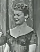 Screenshot of Peggy King from a public domain episode of The Jack Benny Show. I got it from